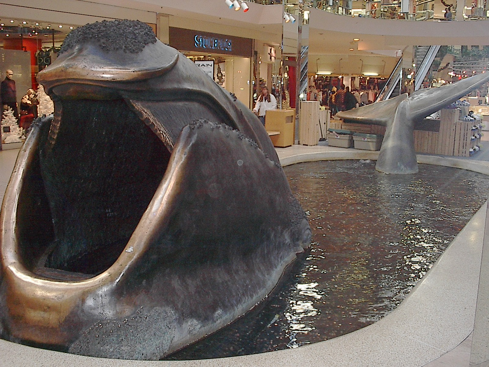 Author: Matteso Snapped the photo myself while at the mall